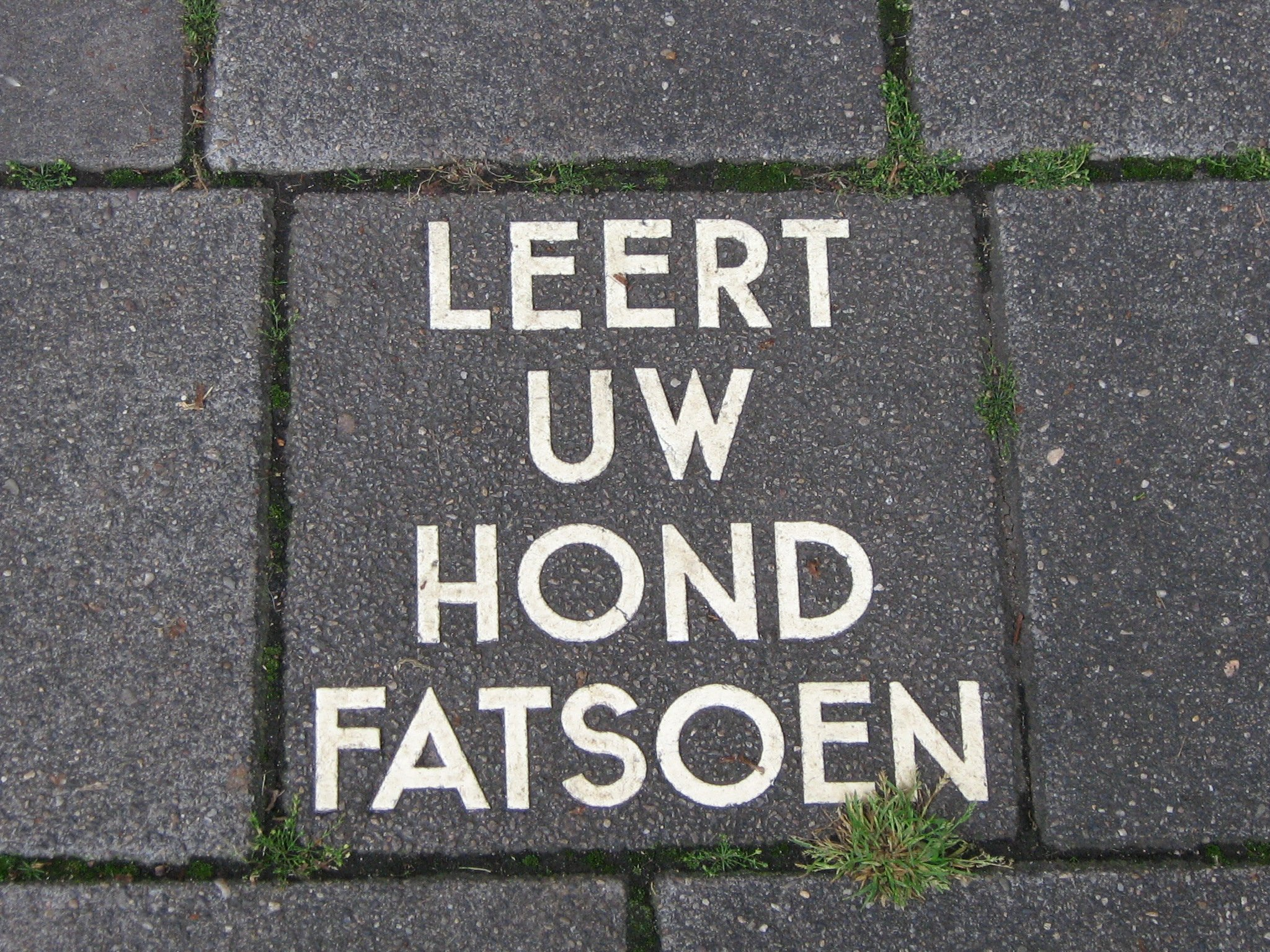 Humurous warning against dog droppings in